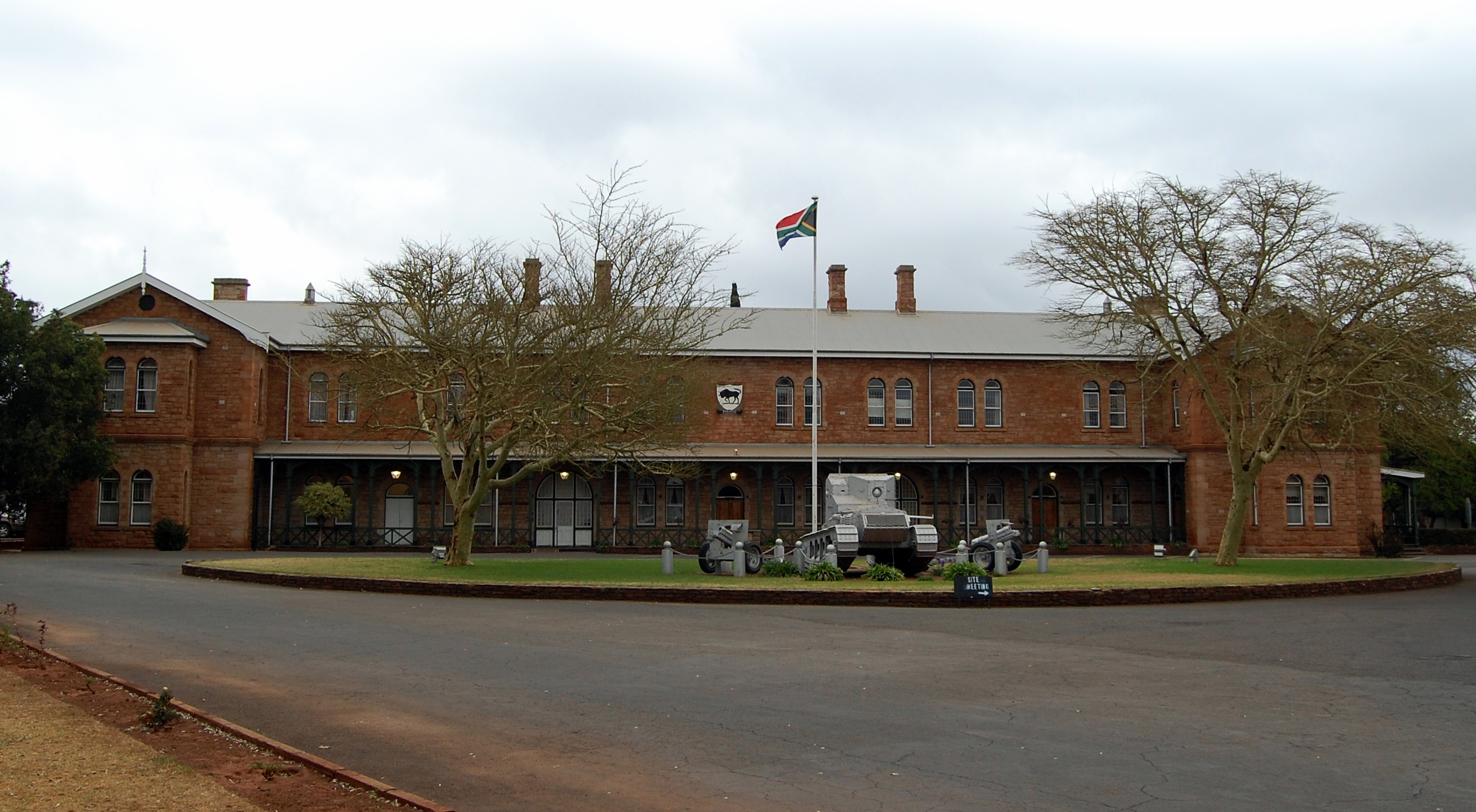 SA Army College, Thaba Tshwane, Pretoria This media shows a South African Protected Site with SAHRA file reference 9/2/258/0154.